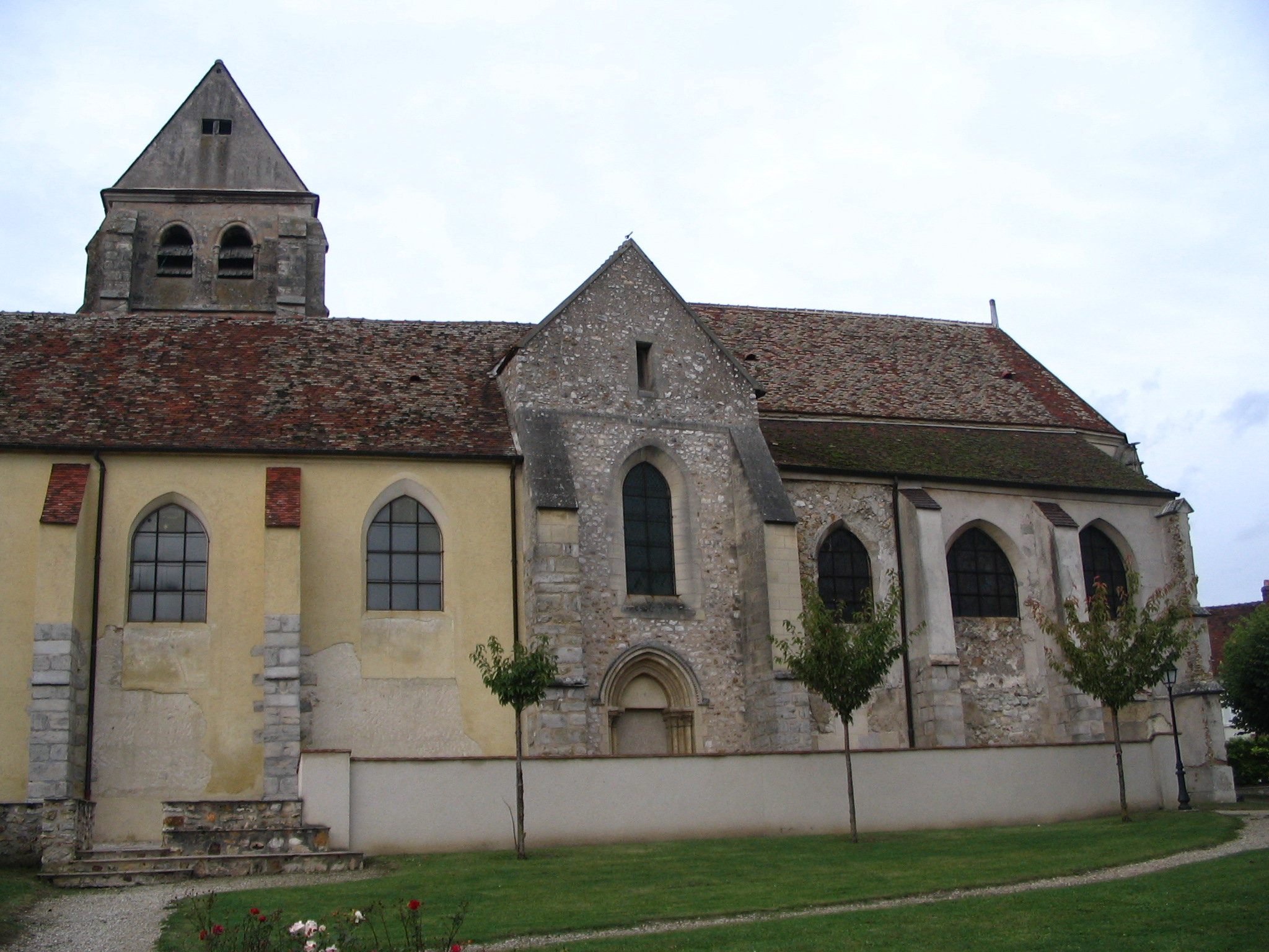 The Roman Catholic church of Couilly-Pont-aux-Dames, Seine-et-Marne, France.